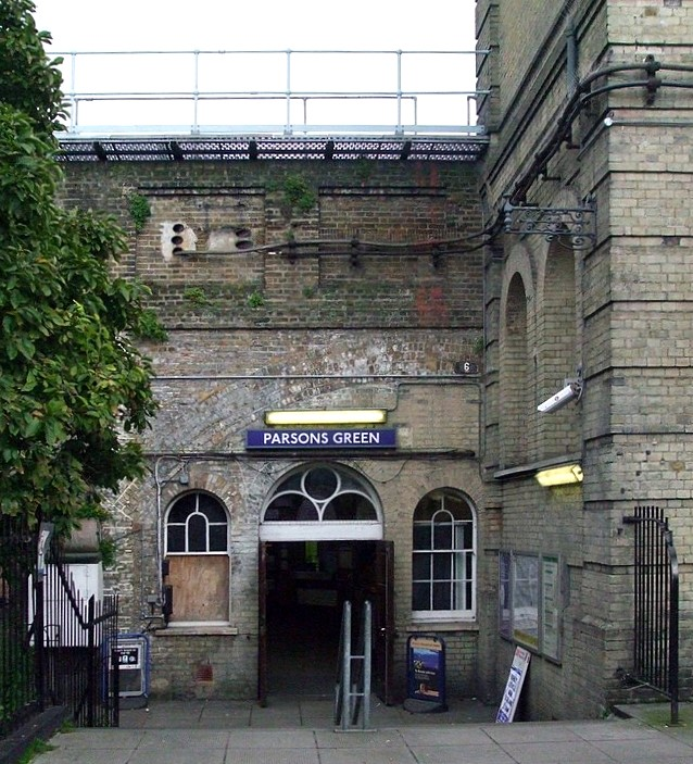 Parsons Green tube station northwestern entrance, on the eastbound side